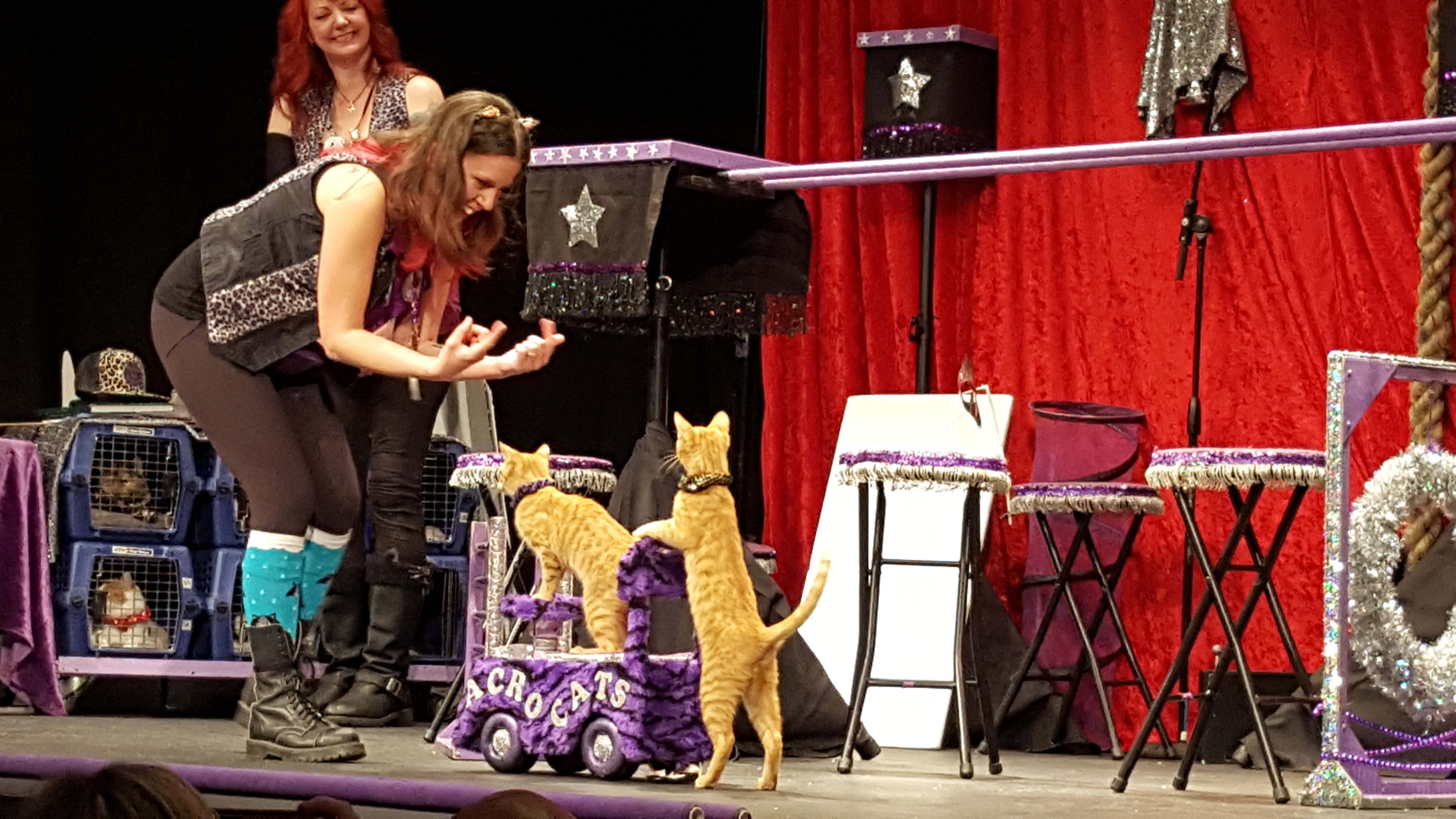 This image shows two cats performing a trick for the Acro-cats traveling cat circus